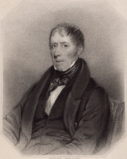 Sir Charles Wetherell by Henry Bryan Hall, after Moore stipple engraving, published 1837